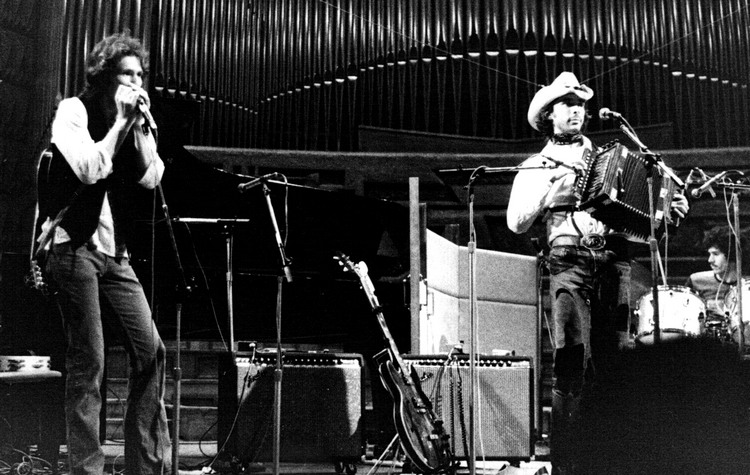 Cajun and Zydeco singer and songwriter Zachary Richard in Paris, France with his group : "Le Bayou des mystères".